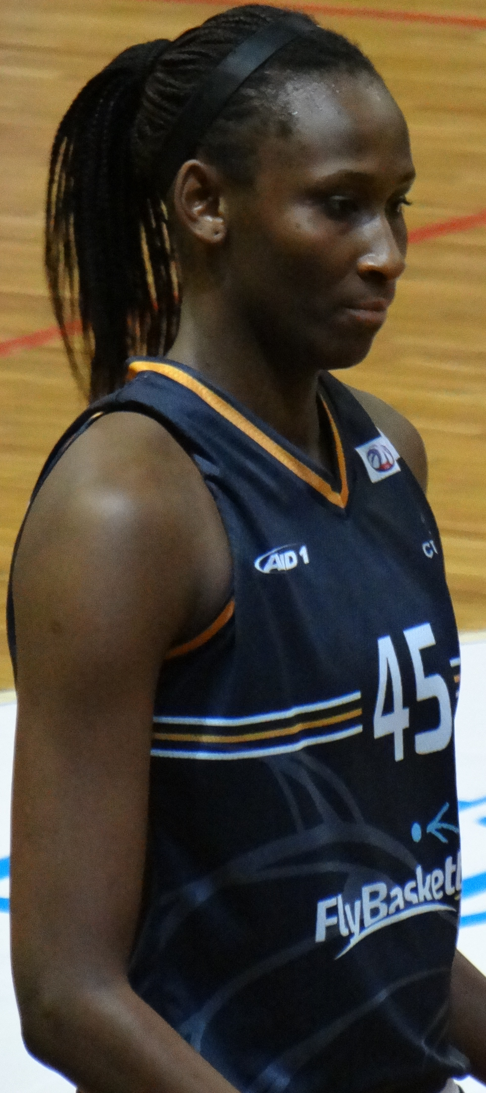 Astou Ndour 45 Çukurova BK TWBL 20181229